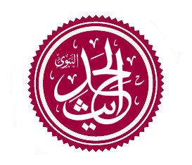 Hatith logo without background.